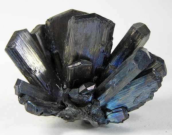 Stibnite Locality: Cisma Mine, Baiut, Maramures County, Romania (Locality at ) Size: 4.6 x 3.3 x 2.8 cm. This is an extraordinary old European stibnite. Here, you not only have the familiar gun-metal luster, but a stunning metallic-blue iridescence. The crystals are in superb condition, and they are arranged in an aesthetic, outward-radiating spray. They have an unusual wide, flat form that is also unusual and pretty. Ex. Al Partee collection.